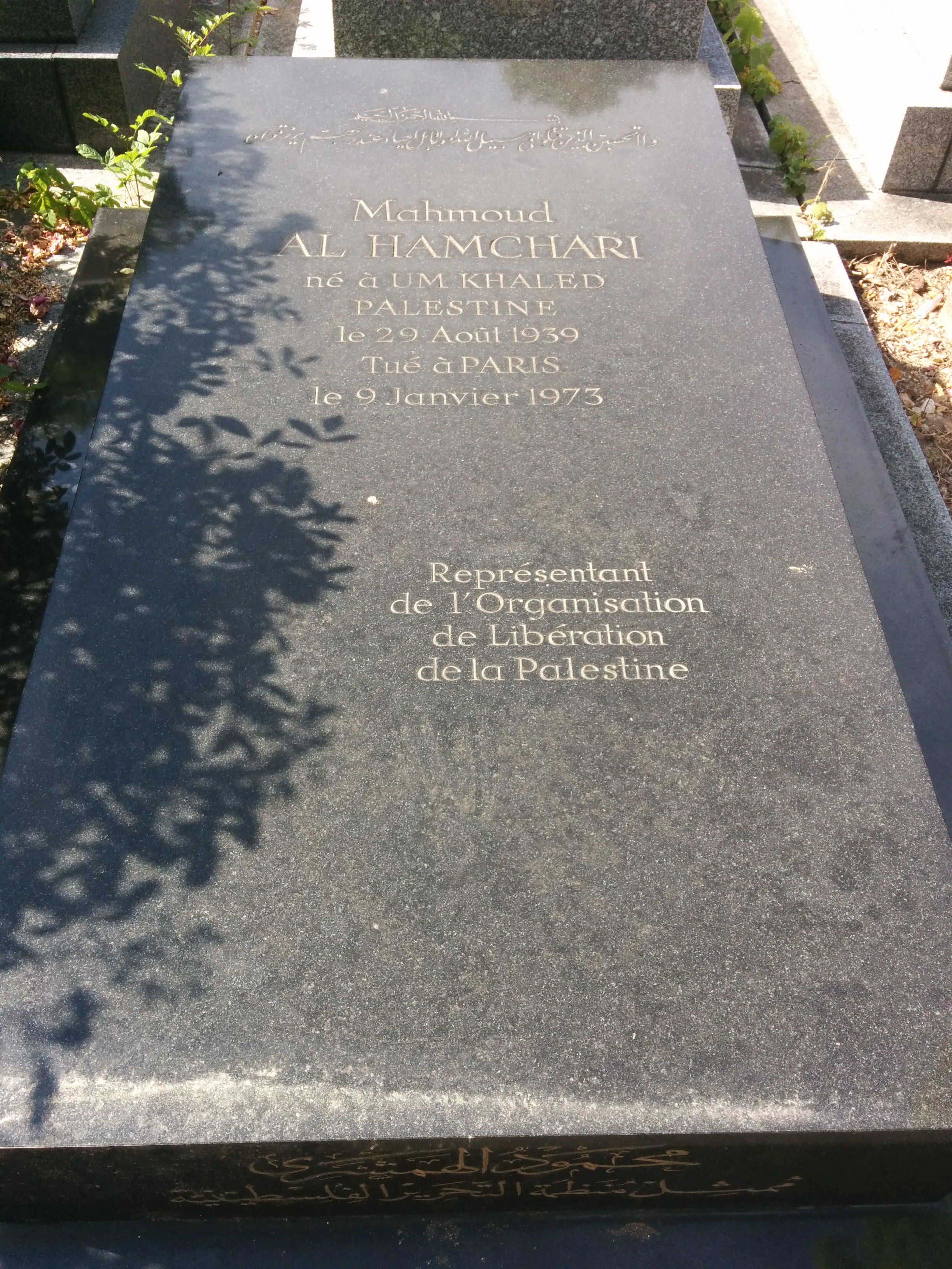 Grave of Mahmoud Hamchari at the Cimetière du Père-Lachaise